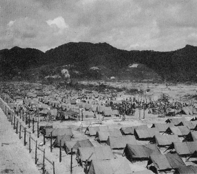 STOCKADE housing some of the thousands of Japanese troops who surrendered in the last stages of the campaign on Okinawa. Village of Misato in present-day City of Okinawa, Okinawa Prefecture, Japan.